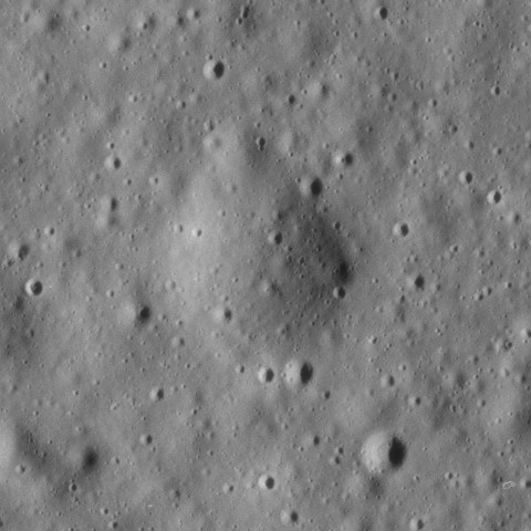 Index crater, Hadley–Apennine region, on the moon. Sun elevation 14 deg., spacecraft altitude 101 km.